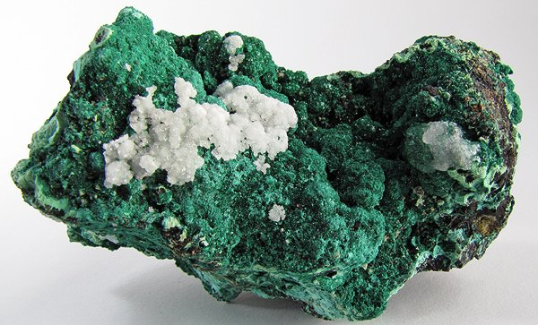 Malachite, Calcite Locality: Old Dominion Mine (Old Dominion shaft; Globe and Transit Mine; Old Dominion and United Globe Mine), Buffalo Hill, Old Dominion vein system, Globe, Globe Hills, Globe Hills District, Globe-Miami District, Gila County, Arizona, USA (Locality at ) Size: 10.4 x 6.4 x 5.4 cm. A very fine, old-time, cabinet combination specimen from the famous Old Dominion Mine at Globe, Arizona. Sparkling, emerald-green, primary malachite microcrystals in bubbly, botryoids richly cover the vuggy, gossan matrix. Colorless, glassy calcite rhombs, in a swath or as isolated crystals are a nice accent. But the interesting thing about this piece is the fact that there are two secondary generations of malachite that cover the original primary malachite crystals: lighter green malachite richly scattered throughout; and pastel-green malachite on the fringes. An attractive combination piece from this historic Arizona locale, probably dating to the 1950s or earlier.